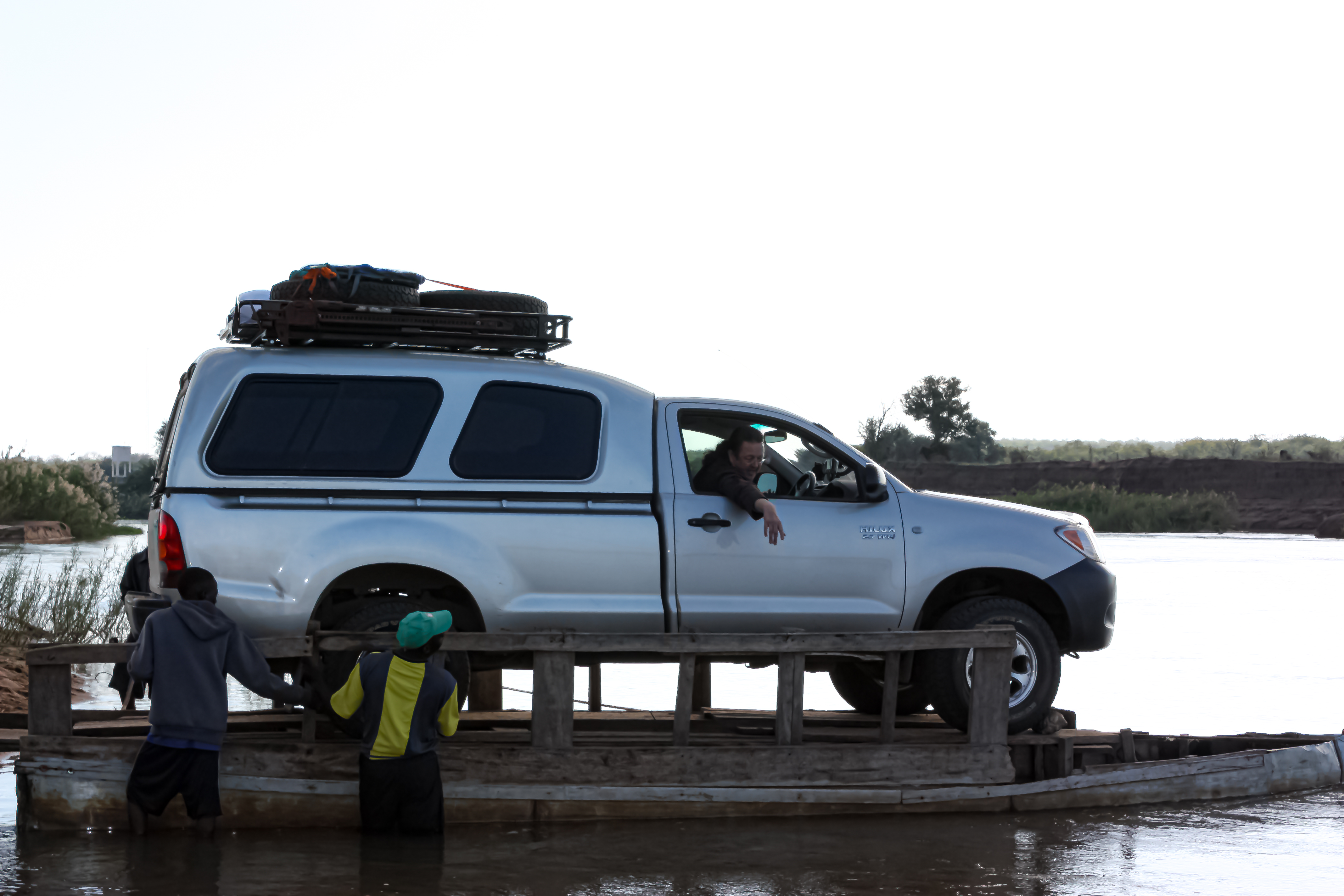 we need to cross the river by this fairy over the Limpopo river in Mozambique This is an image with the theme "Africa on the Move or Transport" from: Mozambique